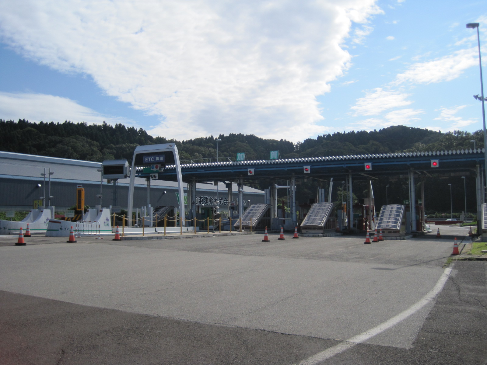 Kaga Interchange (Kaga city, Ishikawa prefecture)